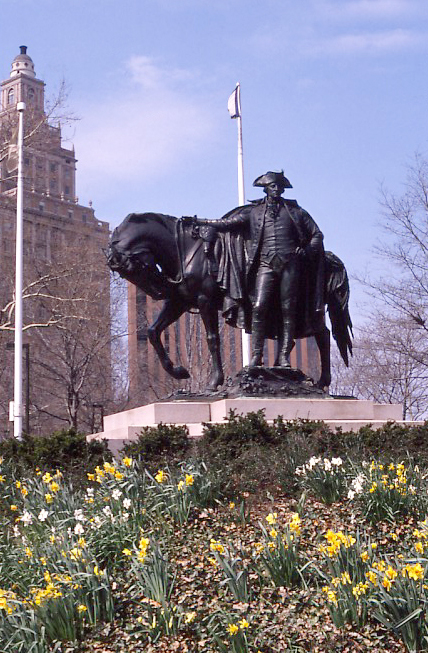 photo by Einar Einarsson Kvaran aka Carptrash 00:05, 31 January 2007 (UTC). George Washington by J. Massey Rhind in Newark, New Jersey.